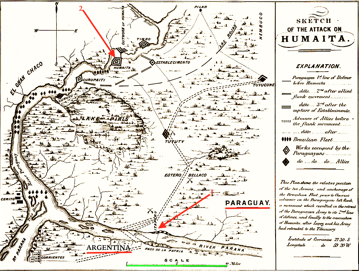 The Allies close round Humaitá.